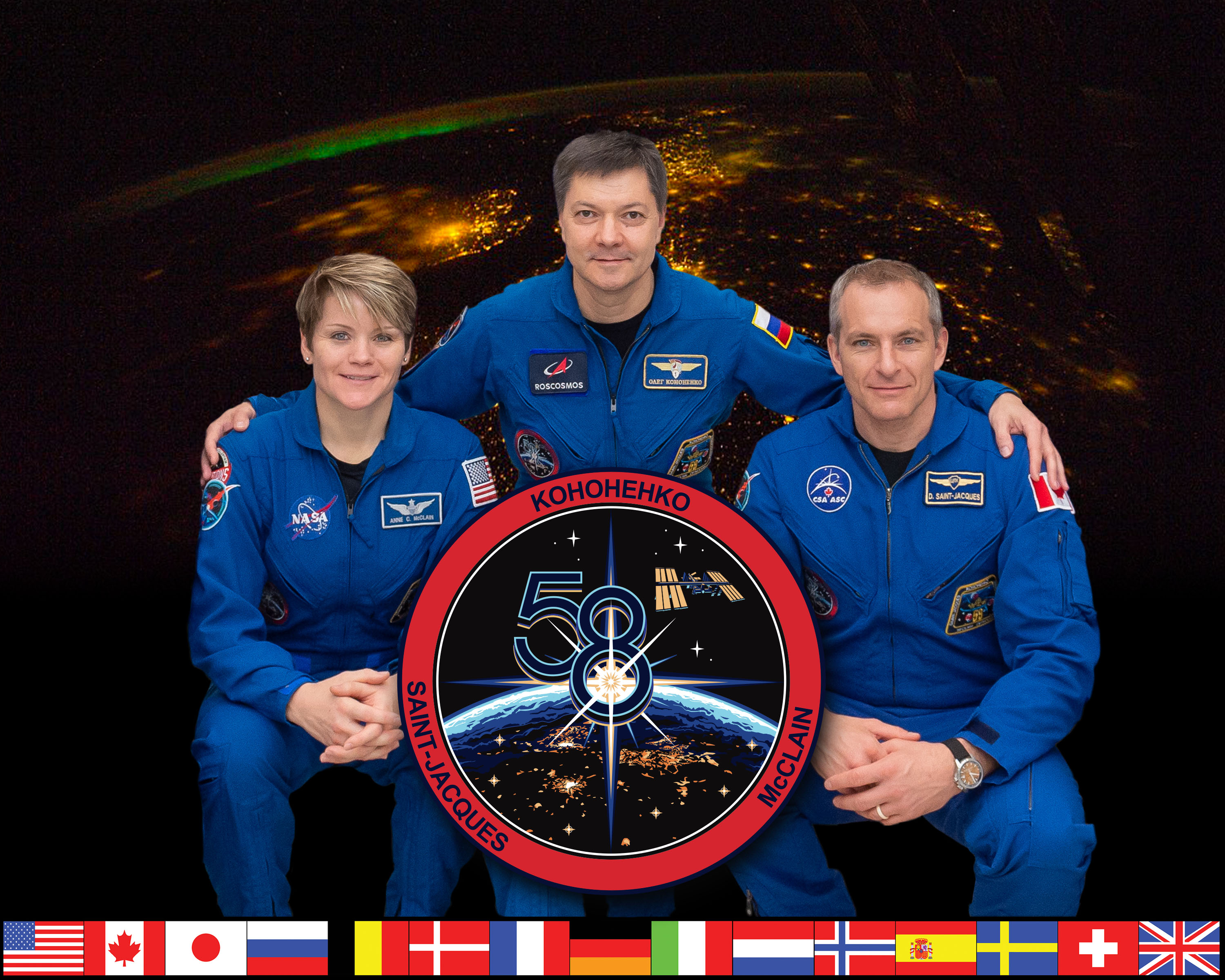 The official Expedition crew portrait with (from left) NASA astronaut Anne McClain, Roscosmos cosmonaut Oleg Kononenko and astronaut David Saint-Jacques of the Canadian Space Agency.